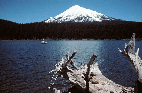 Mount McLoughlin in the Sky Lakes Wilderness